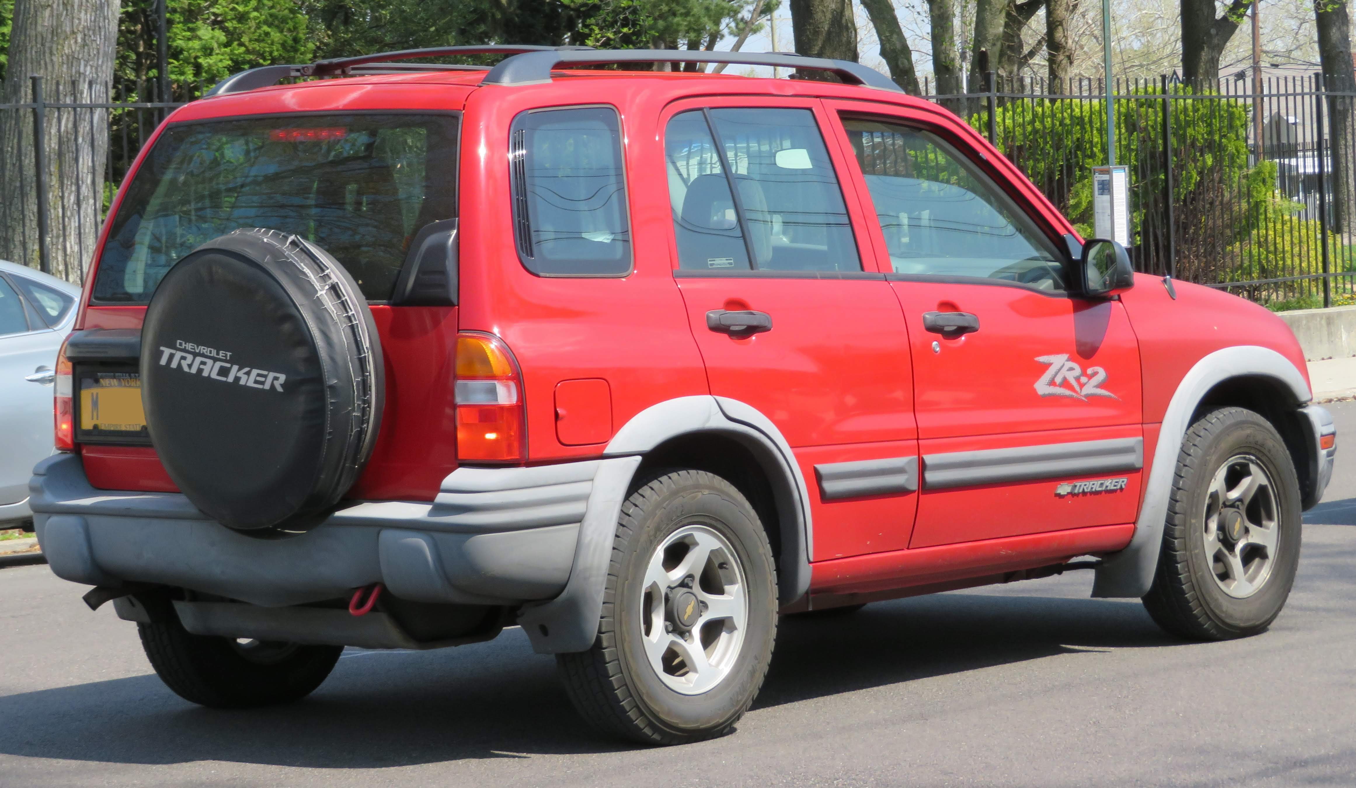 Photographed in Queens, New York